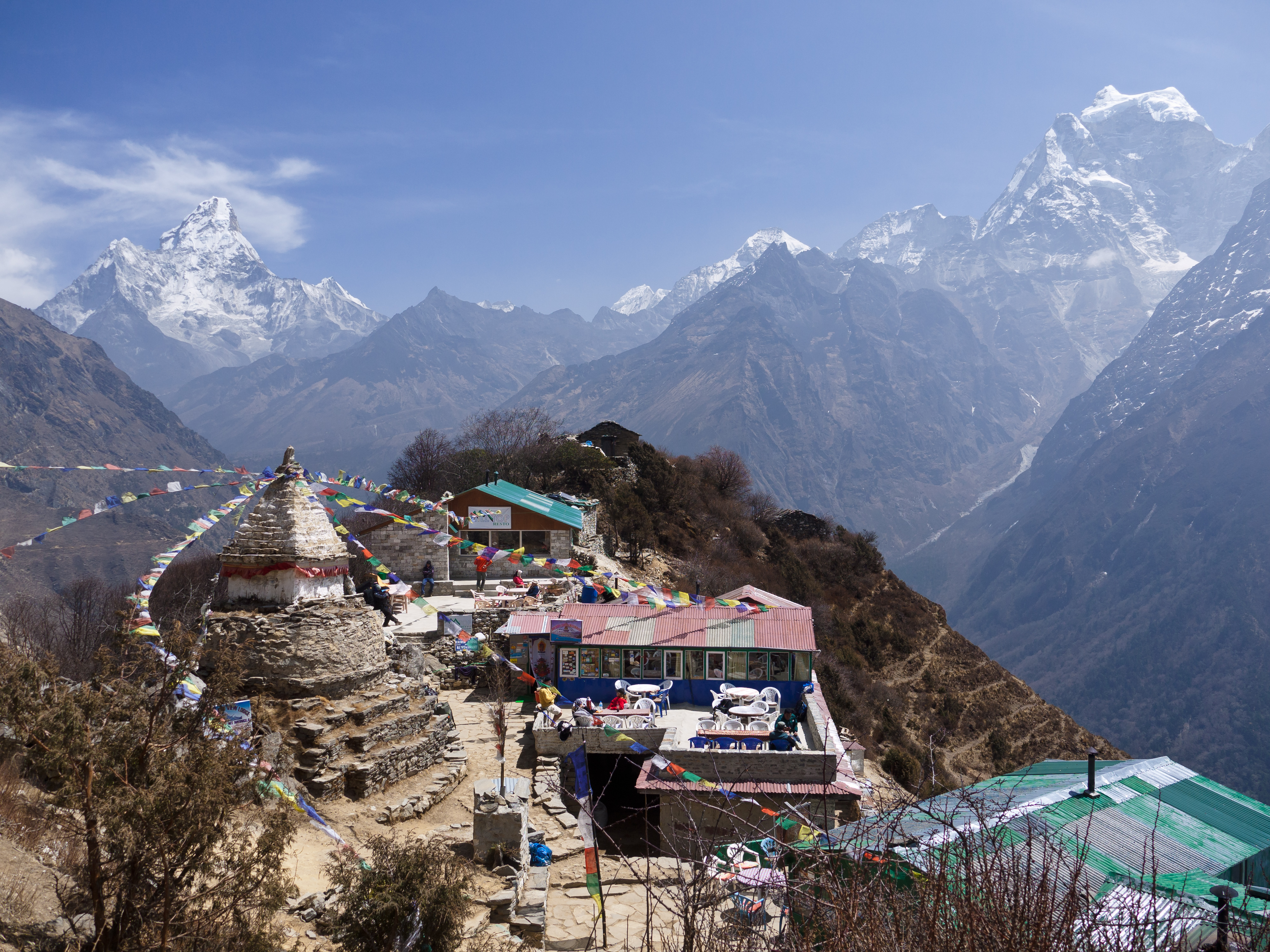 Mong La.